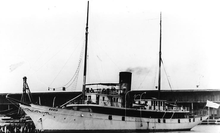 Steam yacht Druid prior to becoming United States Navy patrol vessel USS Druid (SP-321)